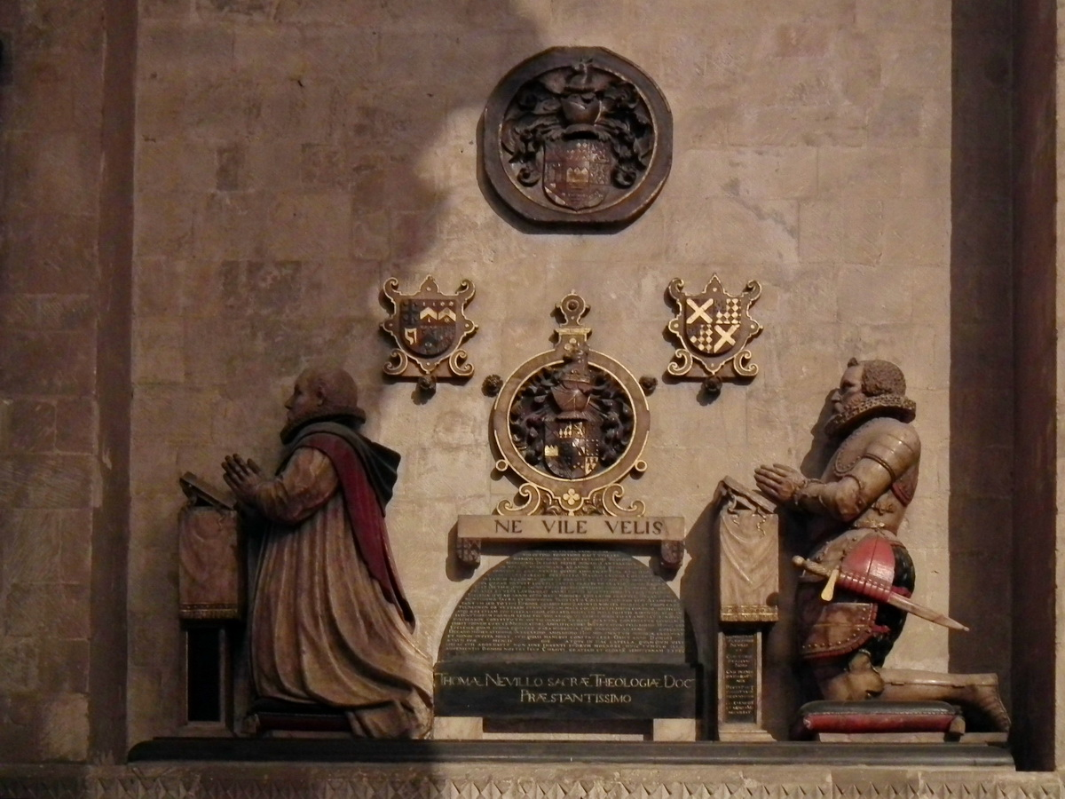 Canterbury Cathedral, Canterbury, England. Effigy of Thomas Neville (d.1615), Dean of Canterbury Cathedral and of his brother Alexander Neville, (d.1614), south choir aisle, Canterbury Cathedral.